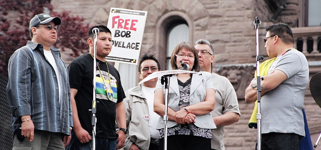 The KI6 - Imprisoned members of Kitchenuhmaykoosib Inninuwug First Nation, speaking at a protest at Queen's Park, Toronto, Ontario while on temporary parole. Chief Donny Morris, Jack McKay, Sam McKay, Darryl Sainnawap, Cecilia Begg and Bruce Sakakeep